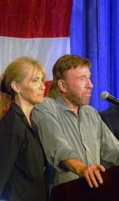 This Chuck Norris and his wife at a political event in Montgomery County, Texas on February 15, 2016.